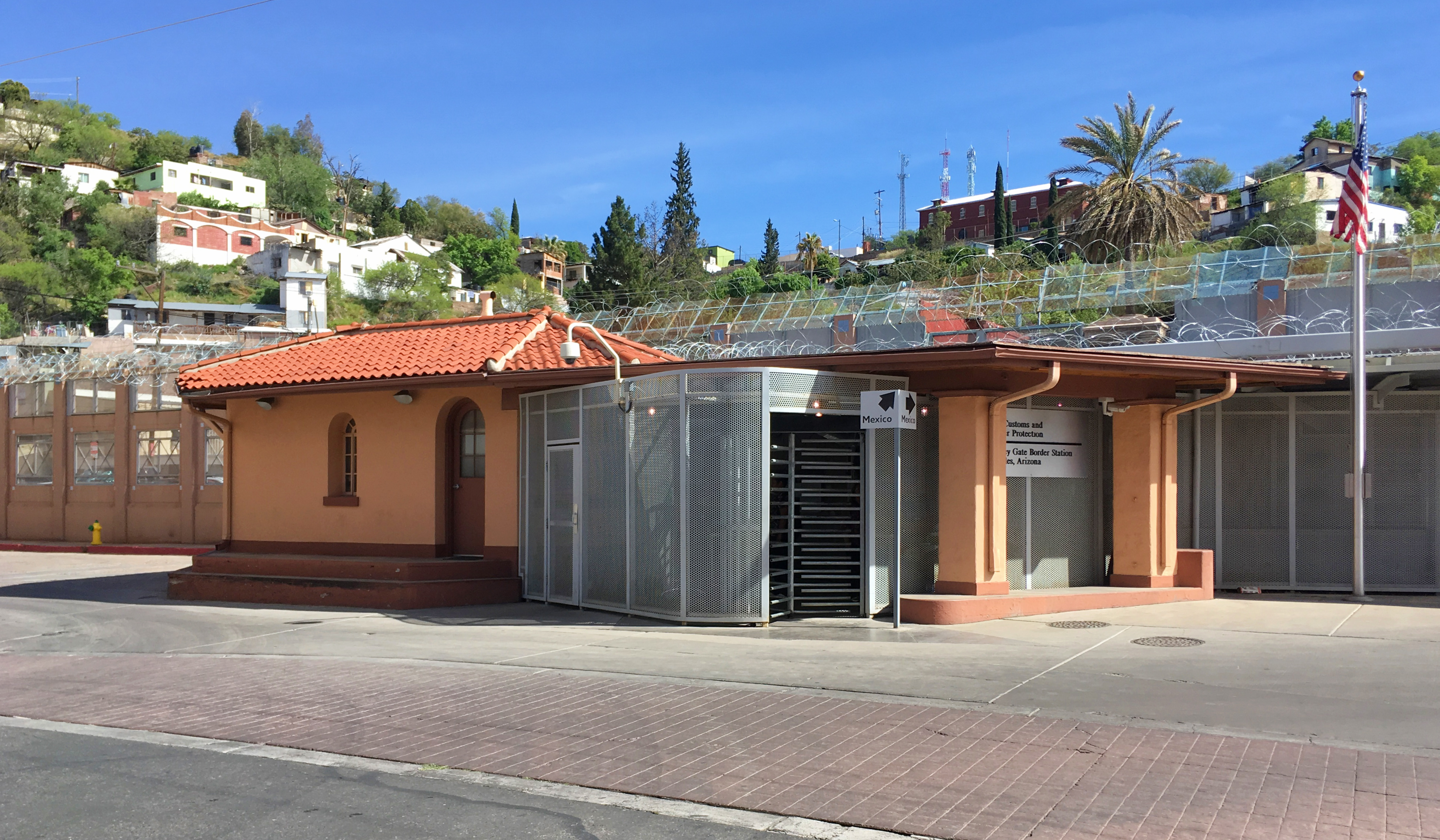 The historic Morley Gate Border Station (built 1930, expanded 1935), located at the intersection of International Street and Morley Street in Nogales, Arizona, United States, is listed on the U.S. National Register of Historic Places.